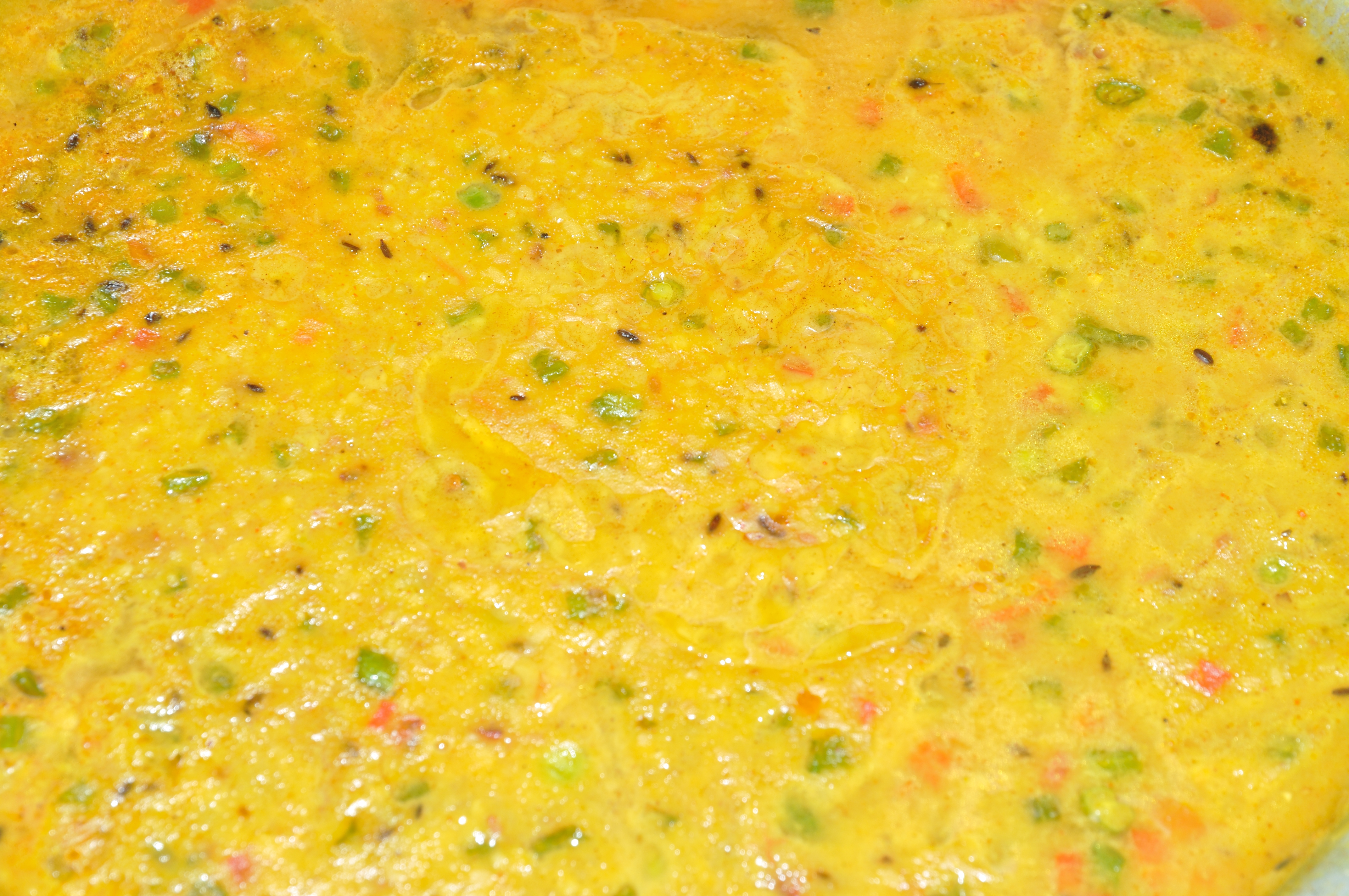 Popular West Bengal dishes.